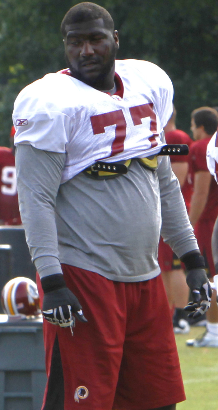 Jammal Brown at Redskins Training Camp August 15, 2011